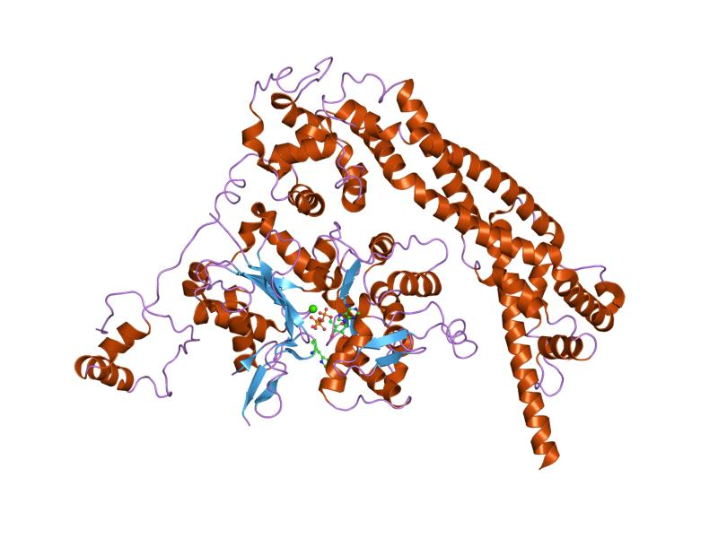 Cartoon representation of the molecular structure of protein registered with 1y64 code.